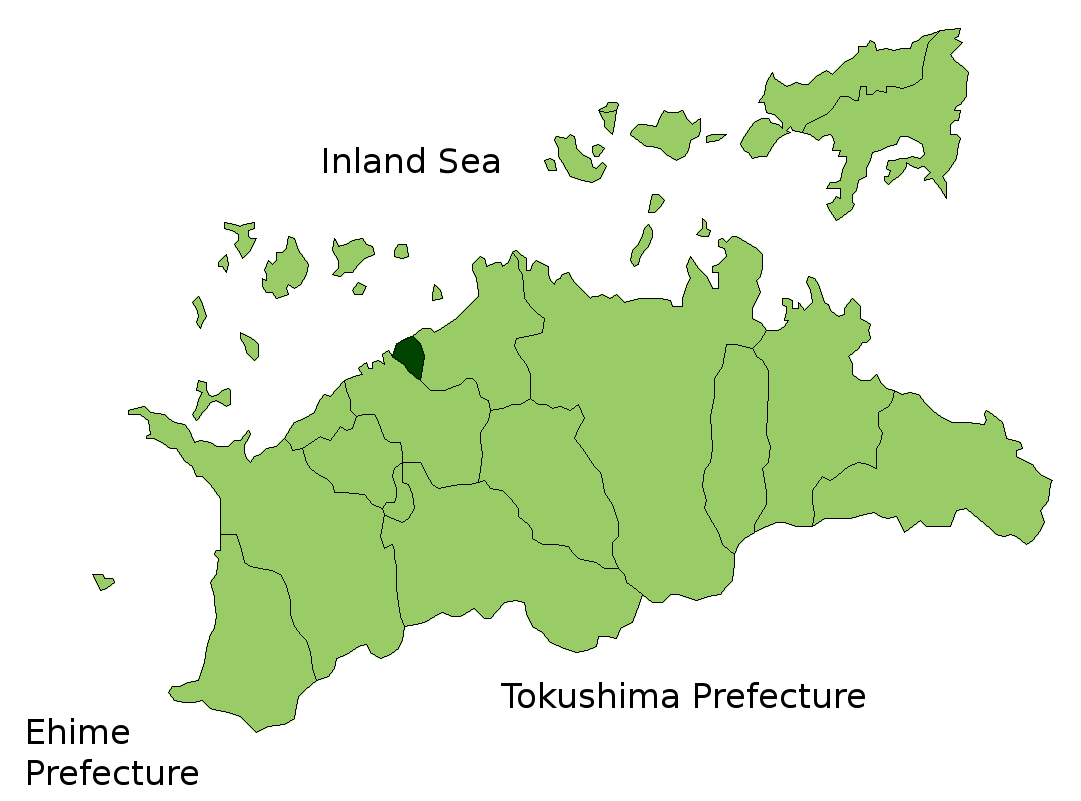 Map of Kagawa Prefecture highlighting Utazu town. Borders of map as of October, 2006. (blank map used from [1]) See also Image:KagawaMapCurrent.png